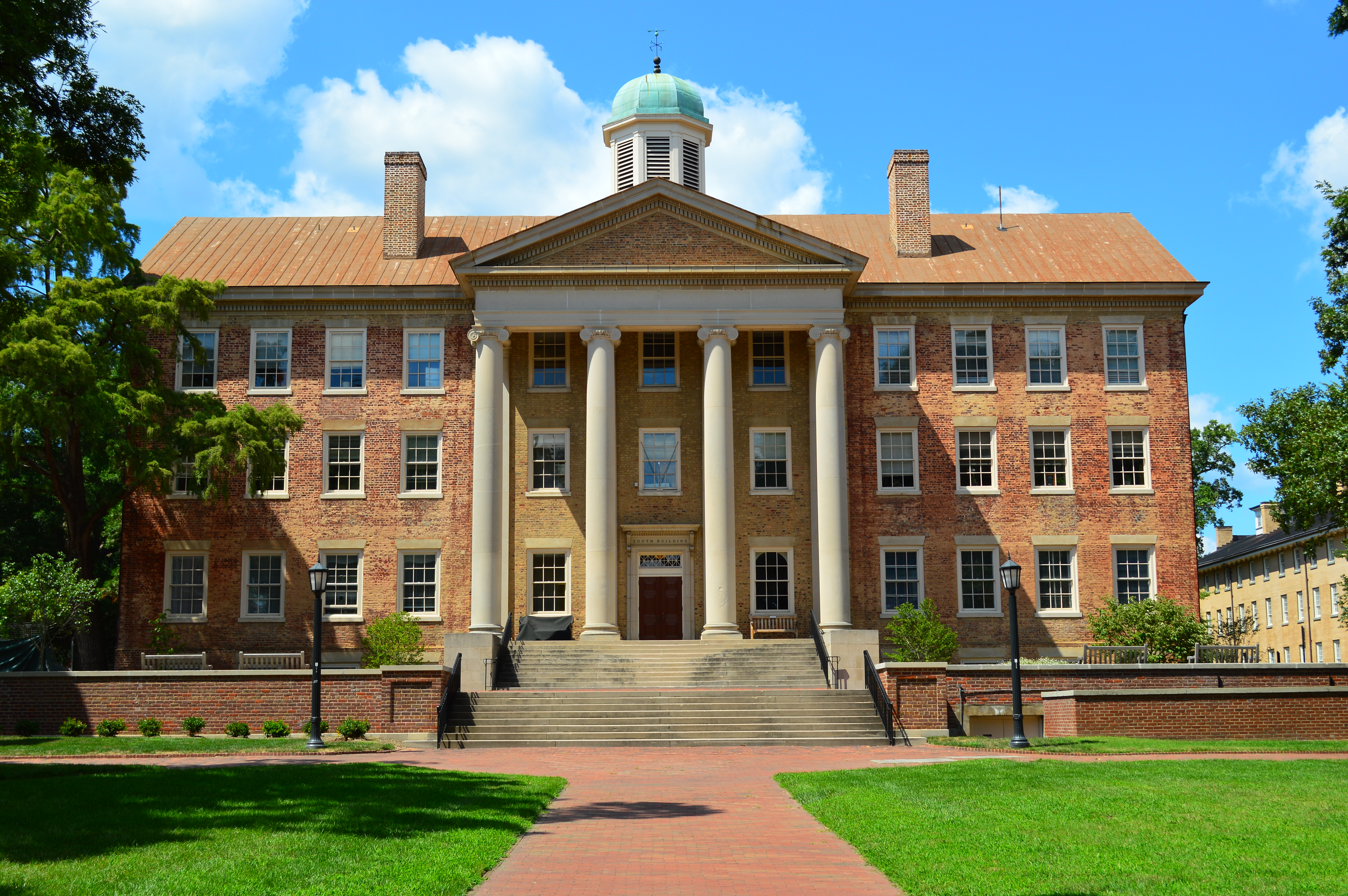 South Building at the University of North Carolina